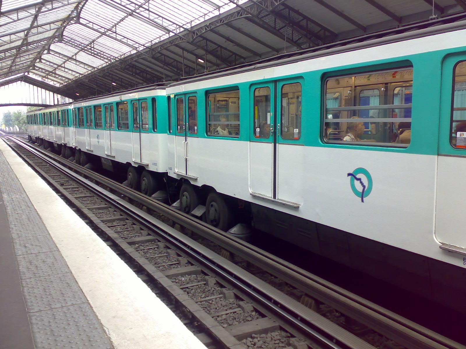 Bir-Hakeim station (Ligne 6) on the Paris Métropolitain network.